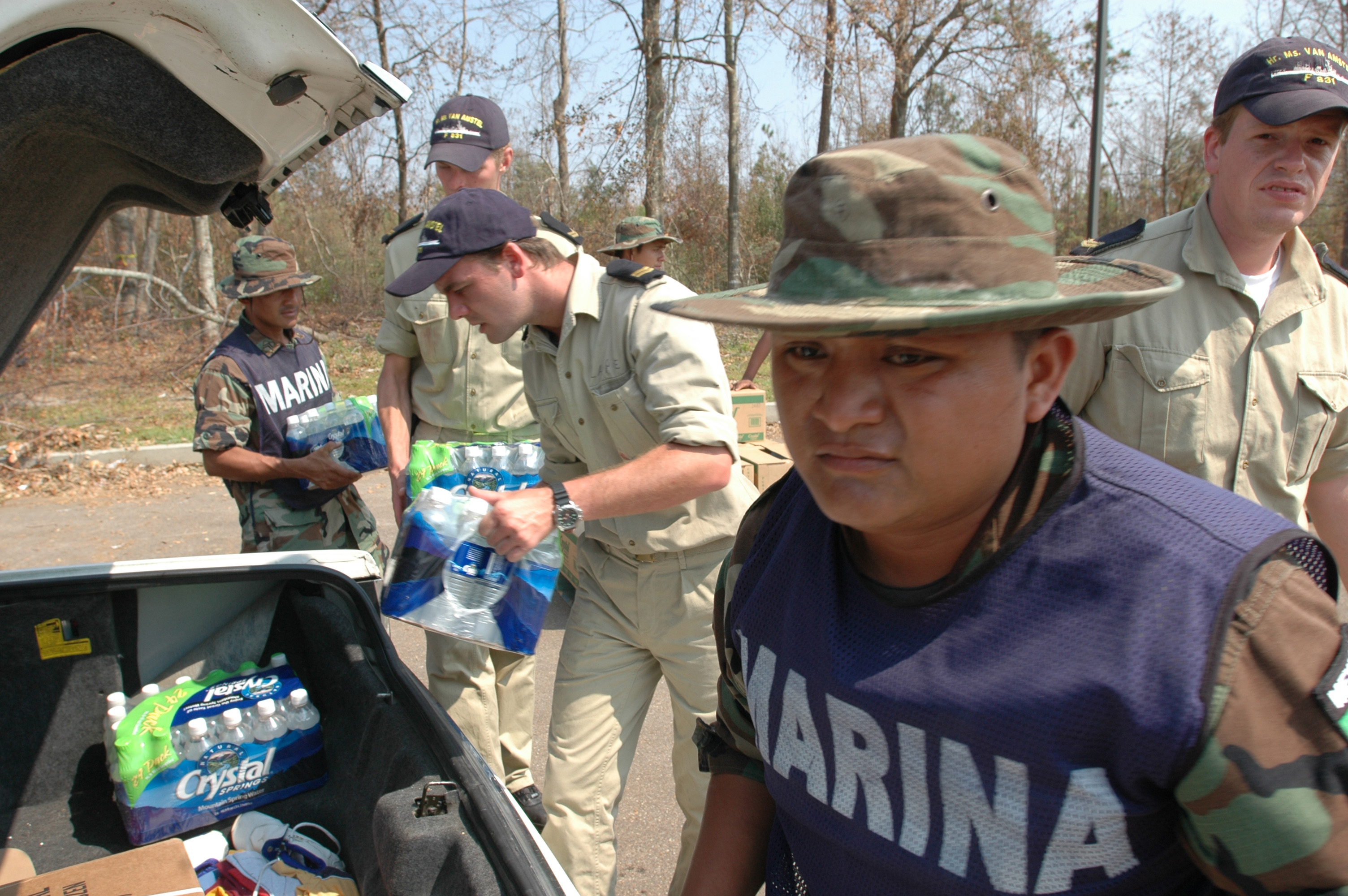 D'Iberville, Miss., September 12, 2005 -- Sailors from the Dutch and Mexican navies distribute water and Meals, Ready to Eat (MREs) to residents of D'Iberville, Miss. Hurricane Katrina caused extensive shortages in coastal Mississippi. FEMA/Mark Wolfe